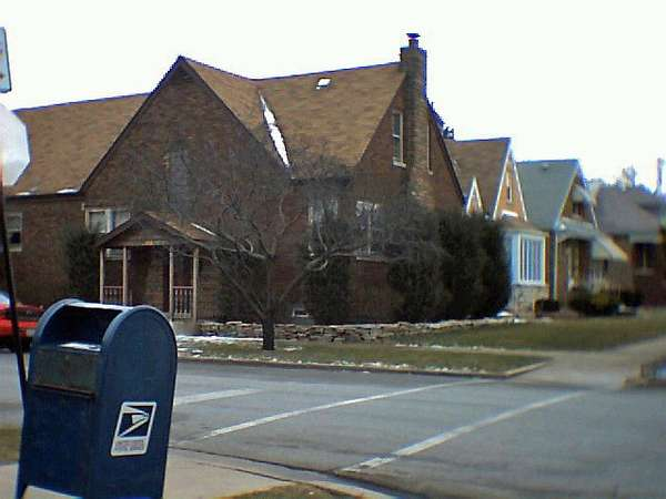 A picture of my neighborhood of West Lawn, Chicago, Illinois